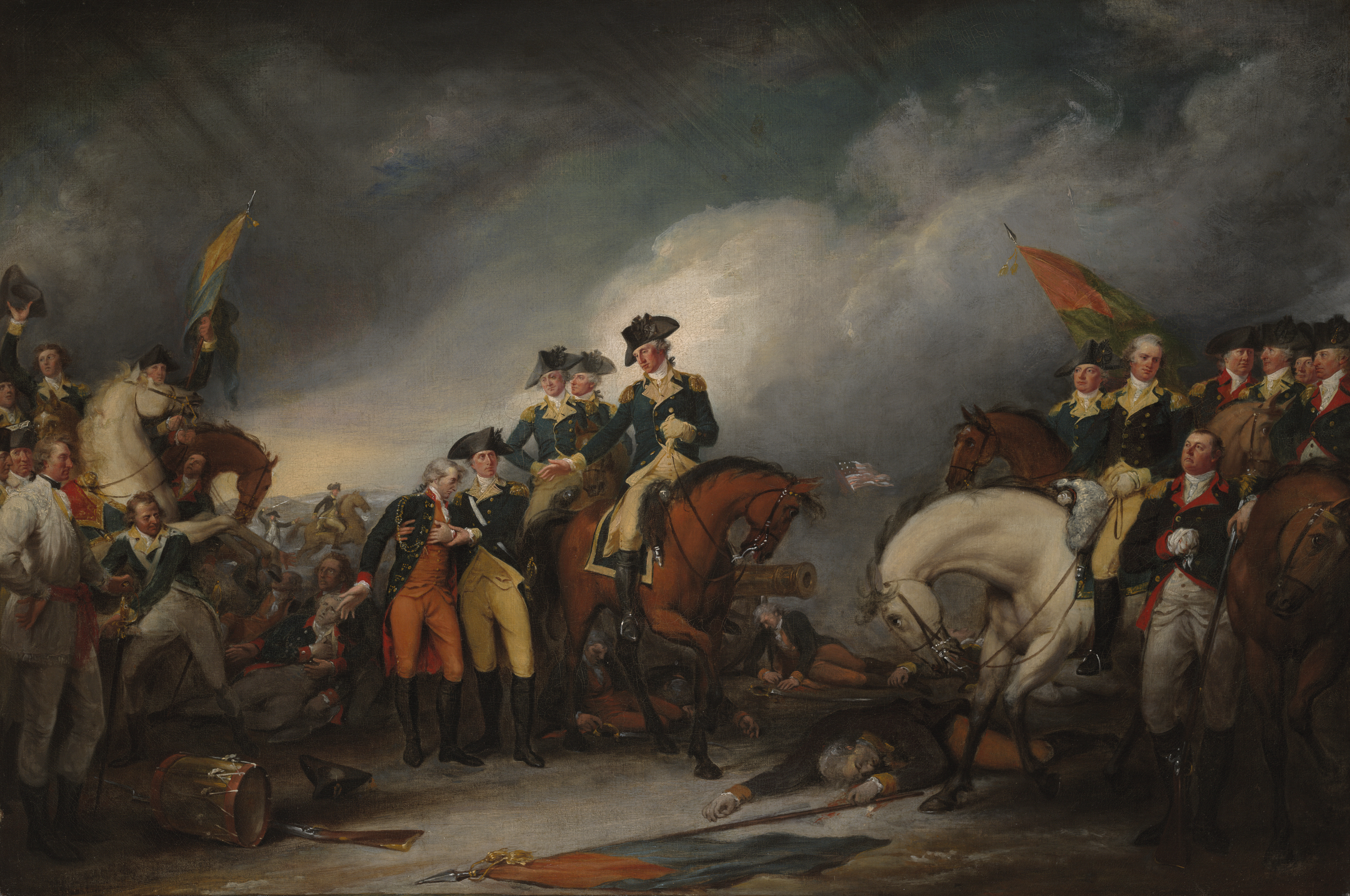 The Capture of the Hessians at Trenton, December 26, 1776 celebrates the important victory by General George Washington at the Battle of Trenton. In the center of the painting, Washington is focused on the needs of the mortally wounded Hessian Colonel Johann Rall. On the left, the severely wounded Lieutenant James Monroe is helped by Dr. John RIker. On the right is Major General Nathanael Greene on horseback.